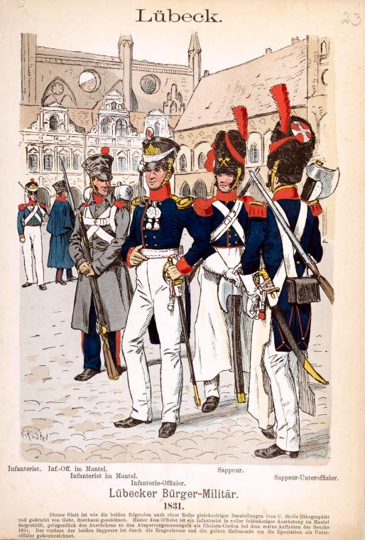 Infantrymen and sappers of the Citizens' Milita of the Free City of Lübeck, 1831